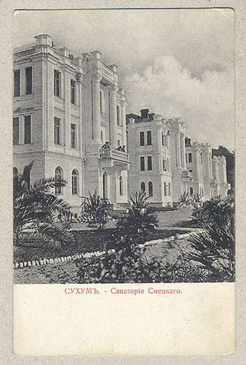 White Building of Smetskoy's Sanatorium (1902), Gulripsh, Abkhazia